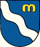 Blazon of Marbach, Canton of St. GallenEsperanto: Blazono de Marbach, Kantono de Sankt-Galo